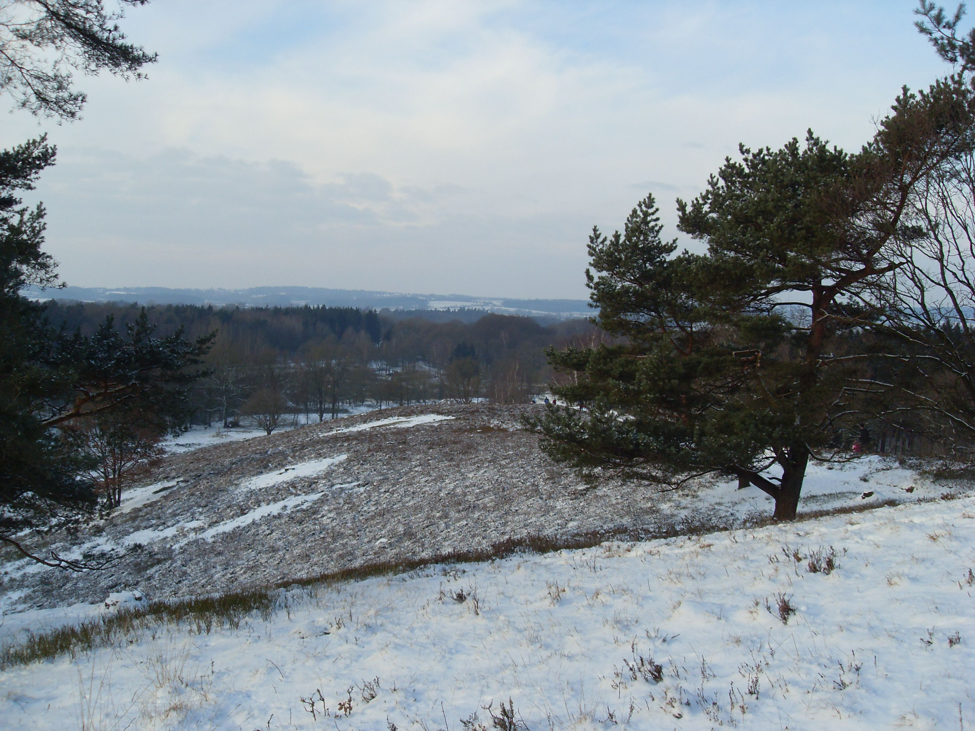 View from Boxberg over the Naturpark Aukrug